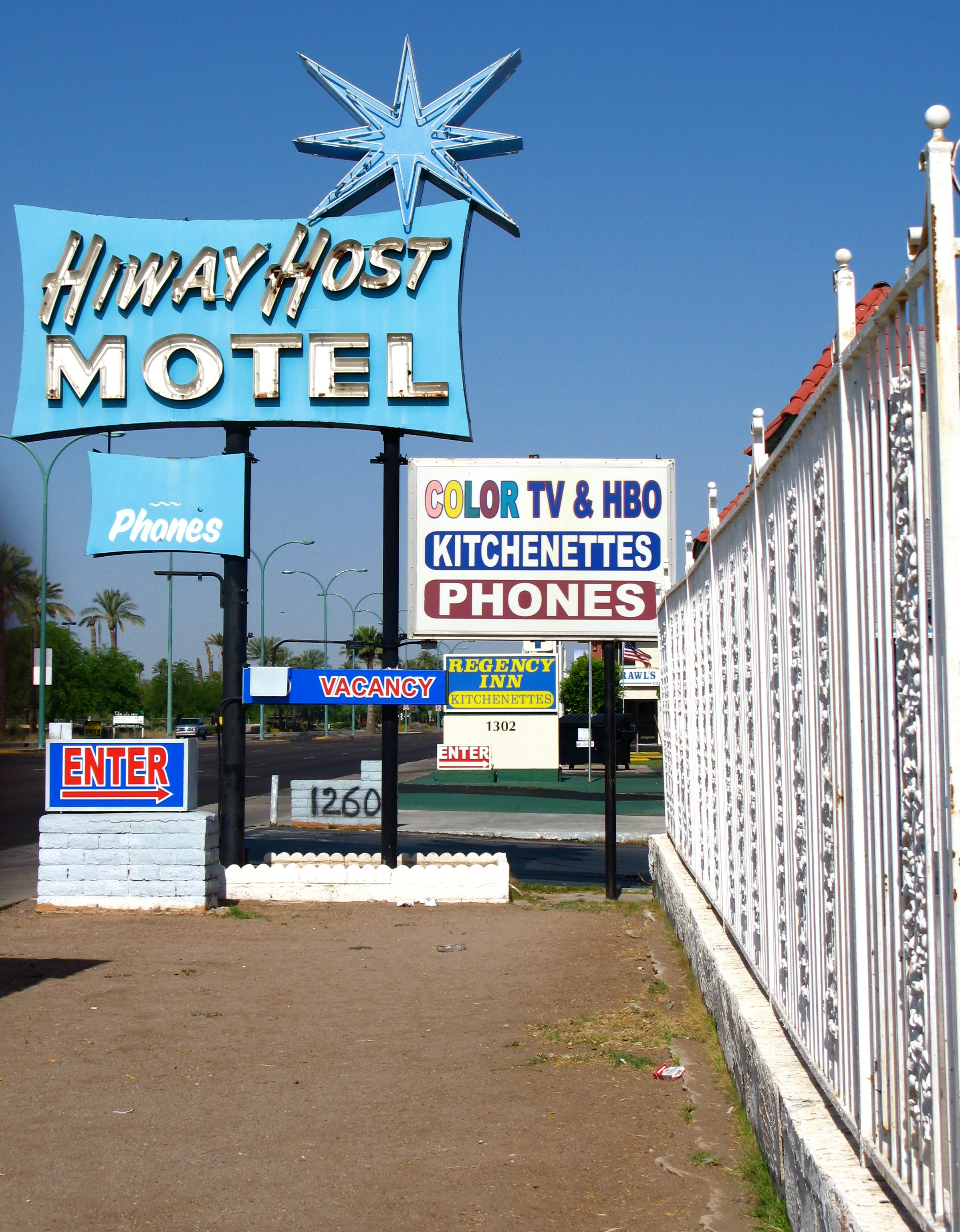 (Explore) I hope you have enjoyed our trip, east to west, on Main Street, Mesa. It began as the Apache Trail near the Superstition Mountains and Apache Junction, and now we end towards the western edge of Mesa, a couple of miles away from Arizona State University. The parking lot for my office in the Business School is in fact right off of this road. I did these on an early Sunday morning so all the parking lots were empty. Only once did I get out of the car (when I walked through downtown Mesa); these are all out-the-window shots. Being on an empty road early Sunday morning also allows you to make the crazy stops and turnarounds you need to do when you drive by a shot and decide that you *must* have it! Finally, it has only taken me a year to realize that dawn and dusk are best for shots in Phoenix, as anytime else the sun is too harsh and just drowns everything out. At least at the edges of the day the sunlight has a bit of softness to it. (By the way--it was 110F here yesterday.)